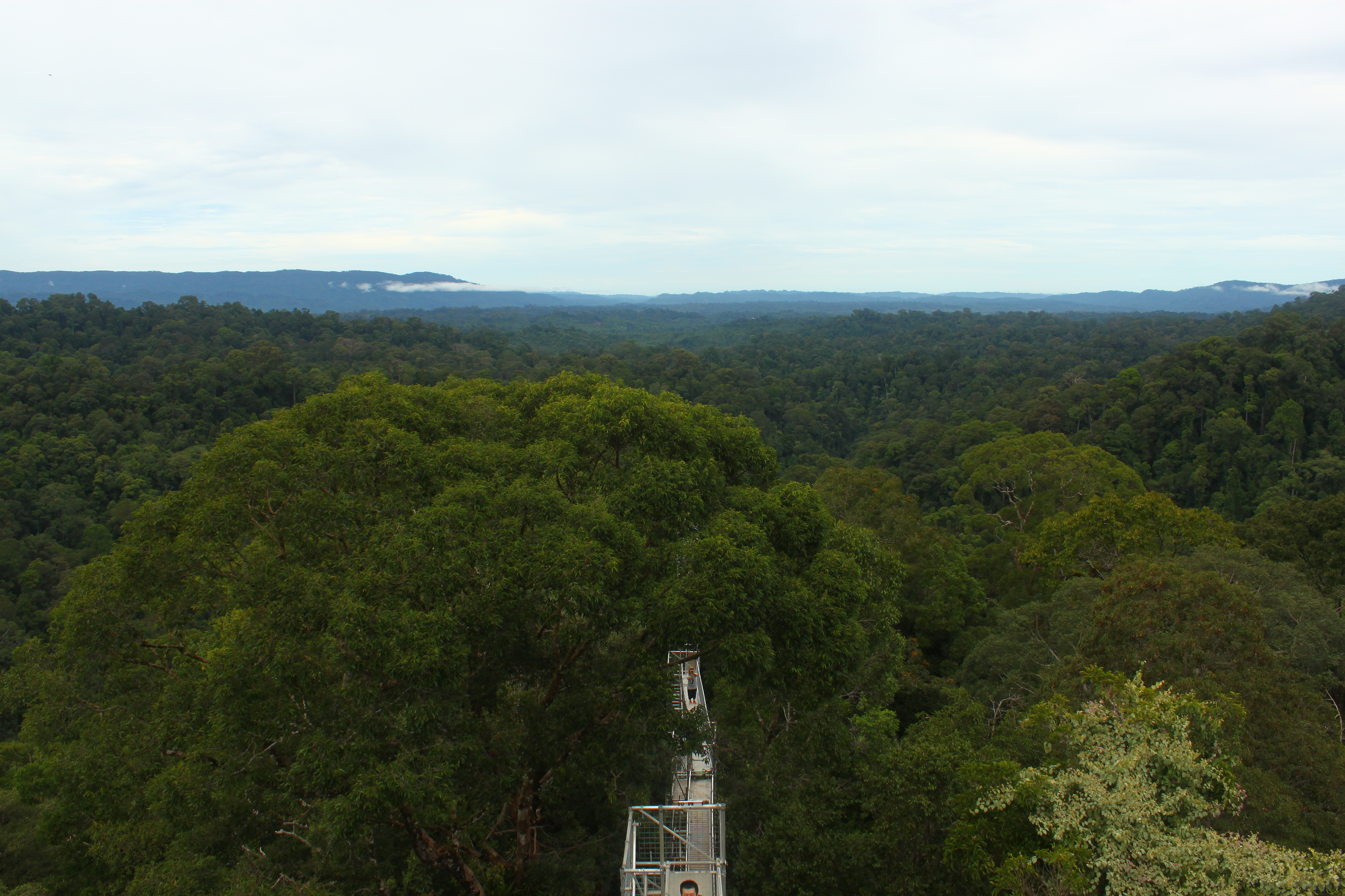 Rain forests of Borneo